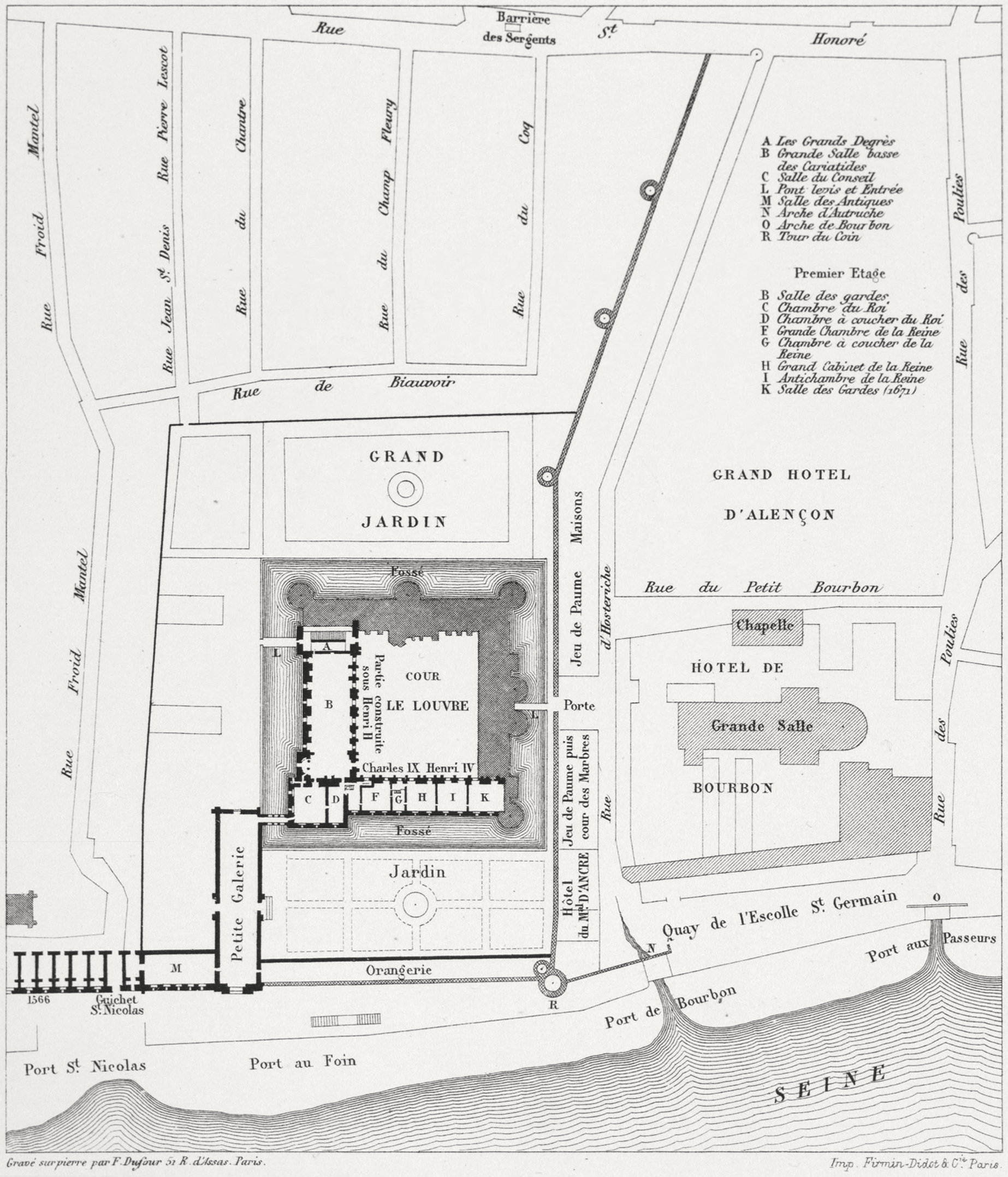 Maps of the Louvre neighborhood. On the left, a map showing 1595. On the right, a map showing 1380. The overlay shows the same area in 1876.